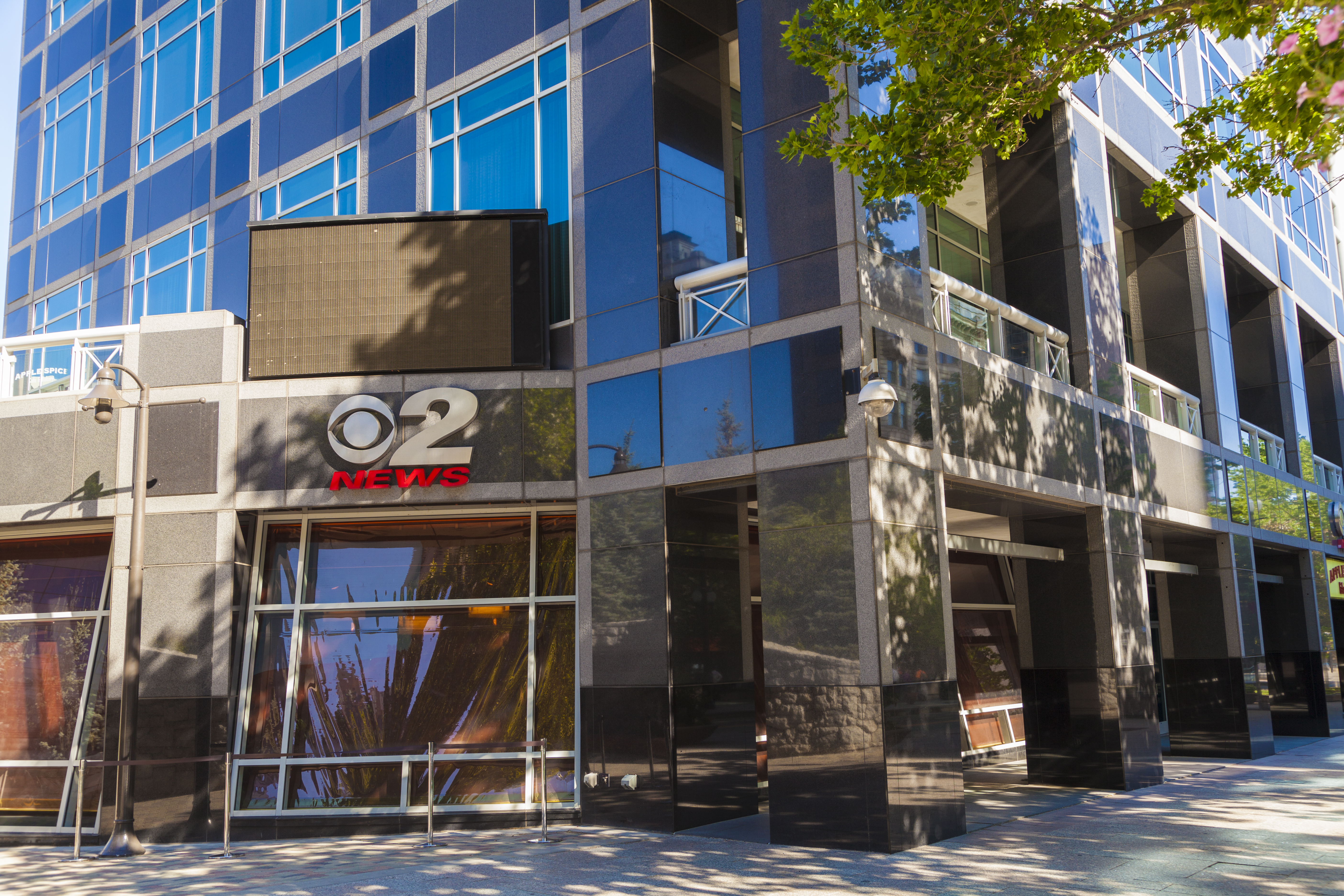 KUTV Channel 2 news studio in the Wells Fargo Center building in Salt Lake City, Utah, USA.